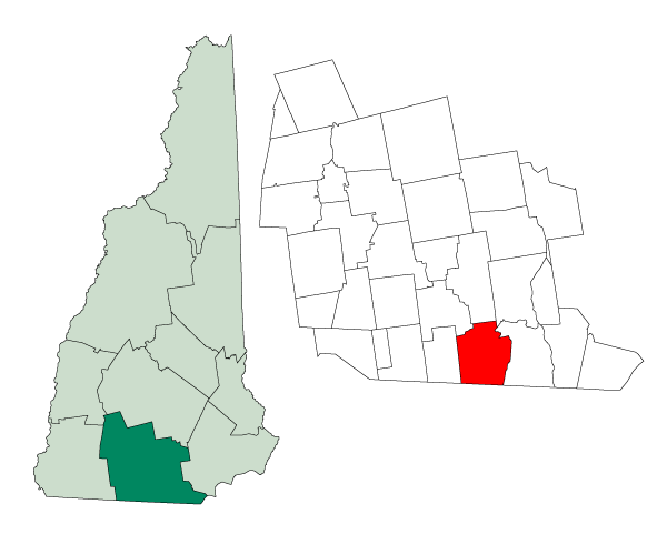 Map of a municipality in Hillsborough County, New Hampshire